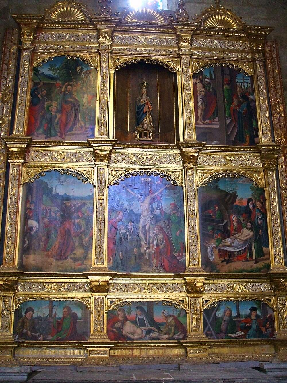 Retablo hispano-flamenco, en transición al Renacimiento plateresco, de San Miguel. Catedral de Astorga (León, España)